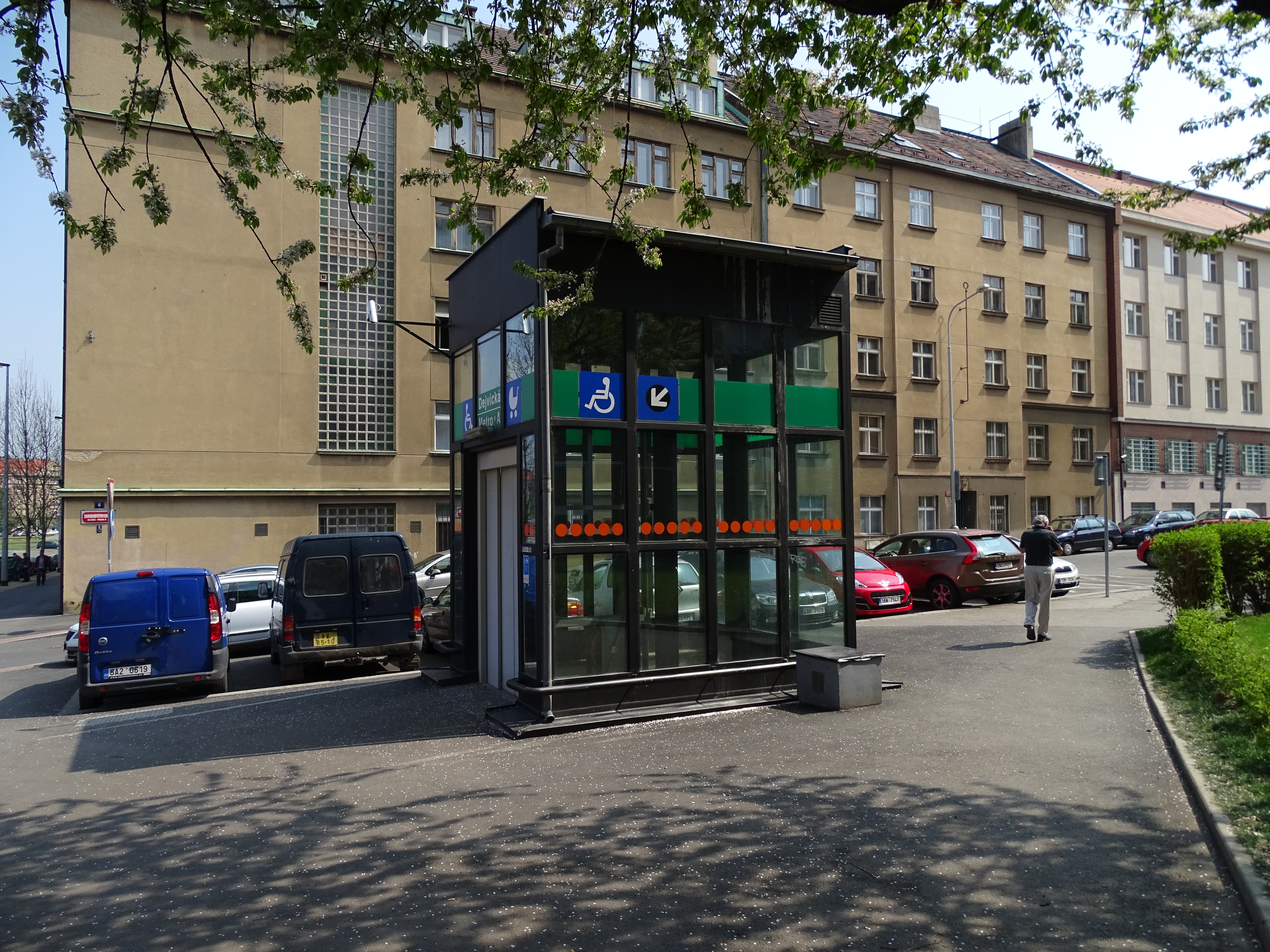 Prague-Dejvice, Czech Republic. Banskobystrická street, elevator of the Dejvická metro station.